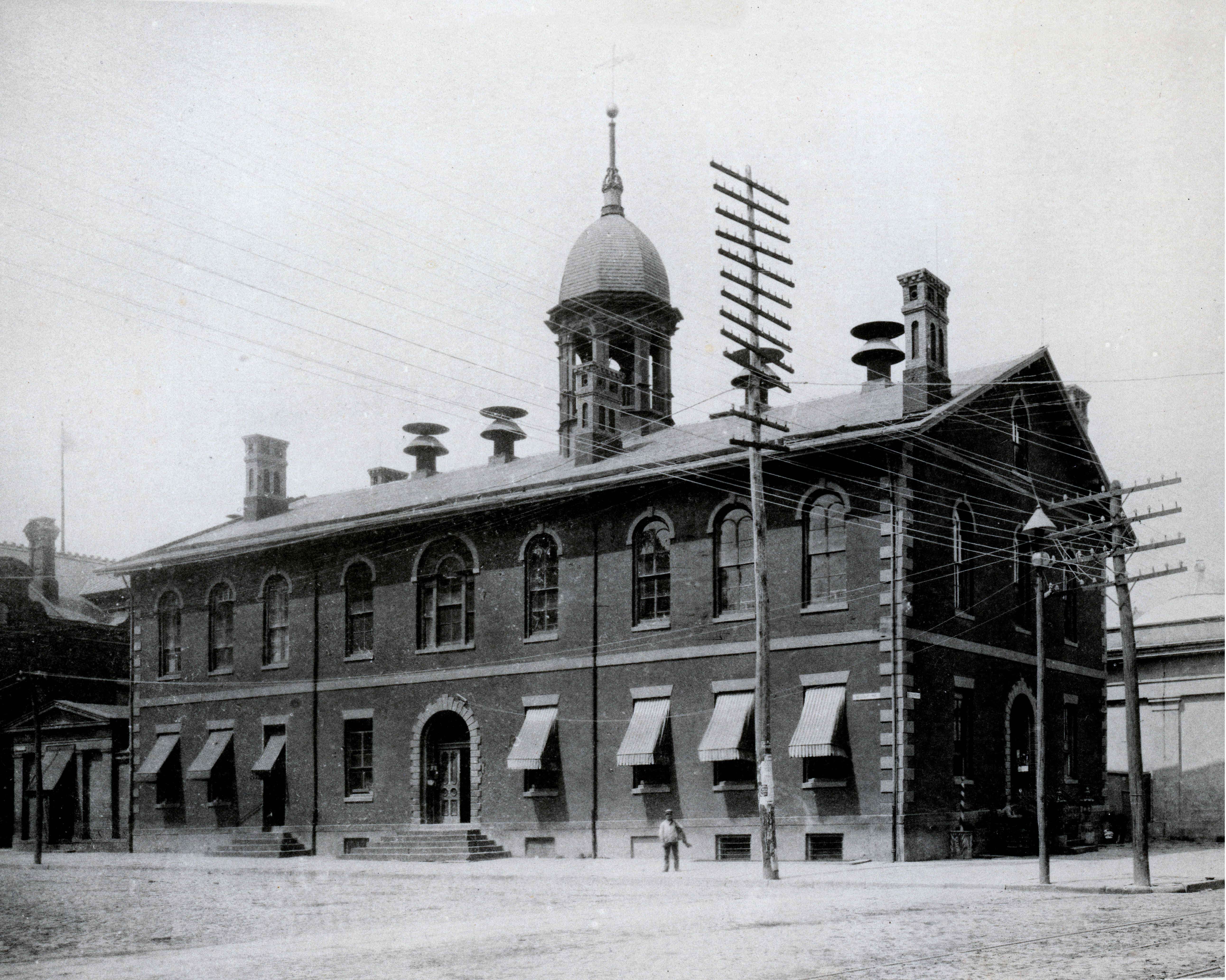 Built as the fourth Dutchess County Courthouse on the same site in 1809, it was removed to make way for the fifth Courthouse which stands today.